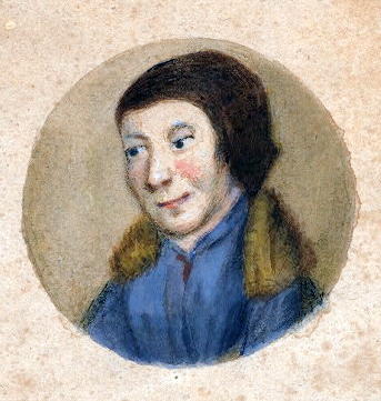 Franco-Flemish composer Gilles Binchois (ca. 1400-1460). Watercolour from Le Champion des dames by Martin Le Franc (1395?-1460?). Le Champion des dames, of which about ten manuscripts are extant, was printed in Lyon in 1488 and in Paris in 1530.